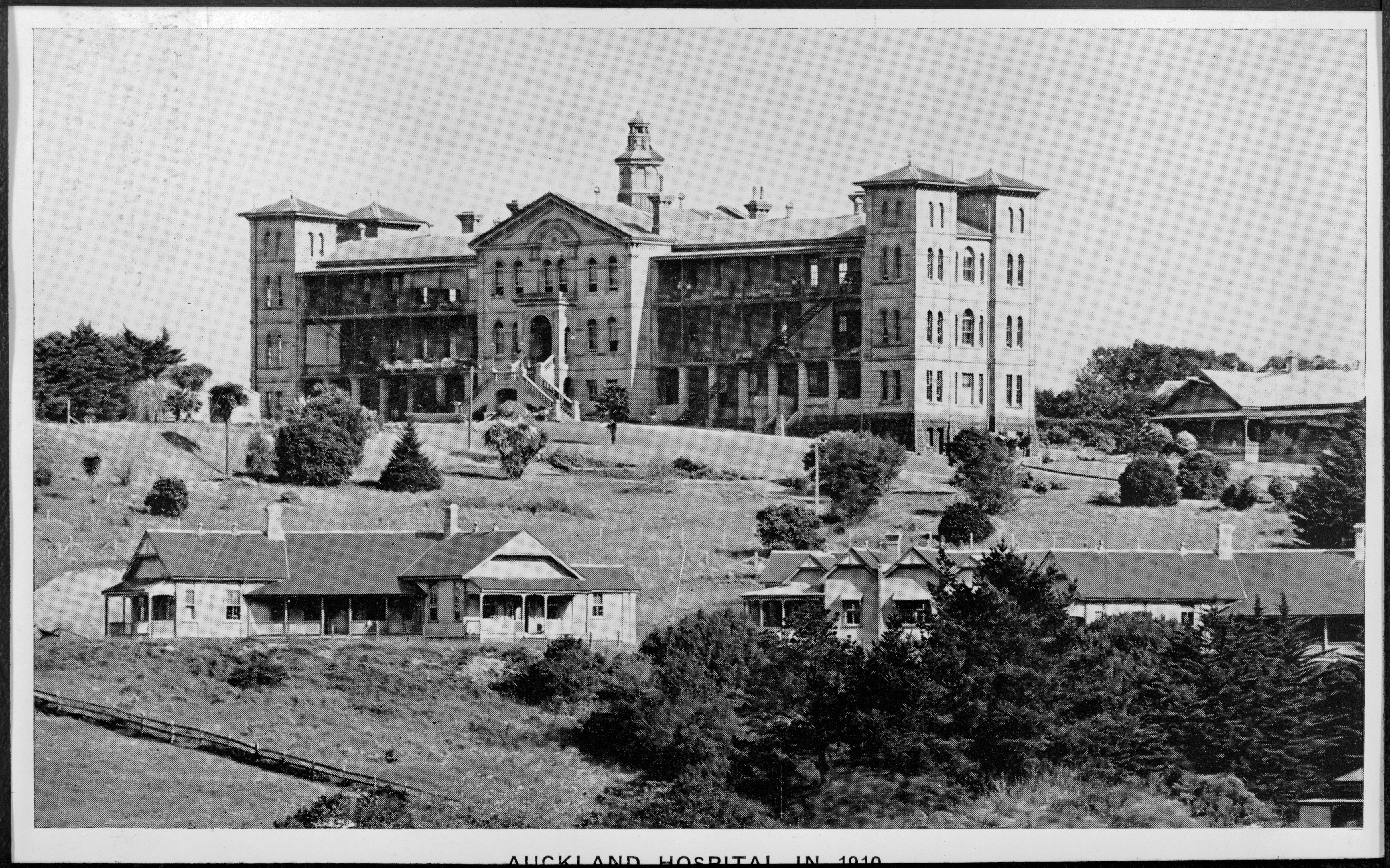 The original complex of the Auckland City Hospital in Auckland City, New Zealand in 1910, long before this old building was demolished. Extended information on origin webpage reads: Auckland Hospital building 1910 / Reference number: 1/2-036275-F / 1 b&w copy negative(s). Film negative. Horizontal image. / Part of Lyon, Mrs :Photographs of Auckland (PAColl-5079) / Photographic Archive, : Scope and contents: Photograph of the Auckland Hospital building designed by Philip Herepath, with surrounding buildings, taken in 1910 by an unidentified photographer. / Historical notes: The Auckland Hospital building by Philip Herepath was completed in 1877. It was demolished in 1963 to make way for construction of the new building.